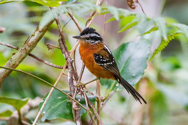 "Trovoada (Drymophila ferruginea) fotografado em Afonso Claudio, Espírito Santo - Sudeste do Brasil. Bioma Mata Atlântica. Registro feito em 2013. ENGLISH: Ferruginous Antbird photographed in Afonso Claudio, Espírito Santo - Southeast of Brazil. Atlantic Forest Biome. Picture made in 2013."